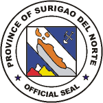 Provincial seal of Surigao del Norte, Philippines.